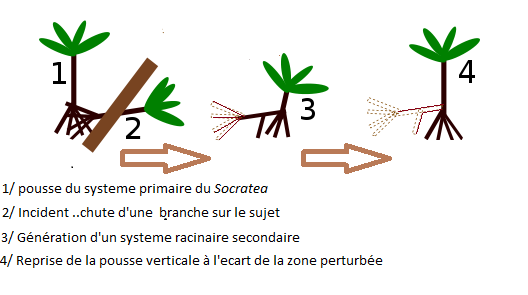 The walking palm tree - Socratea exorrhiza